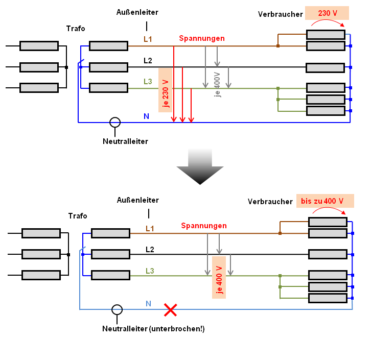 Overvoltage due to a broken neutral conductor